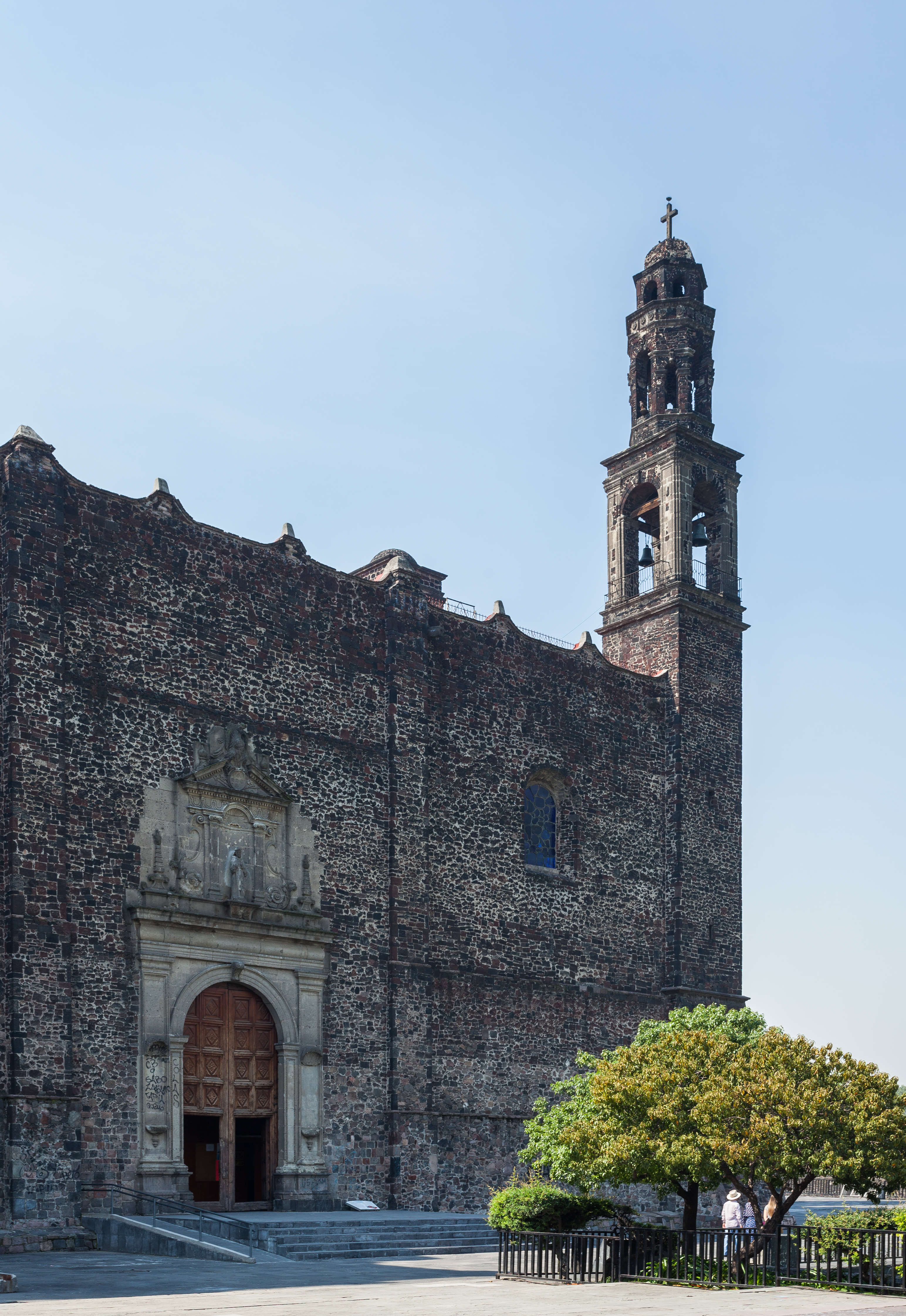 Church of Santiago Tlatelolco, Mexico City, Mexico